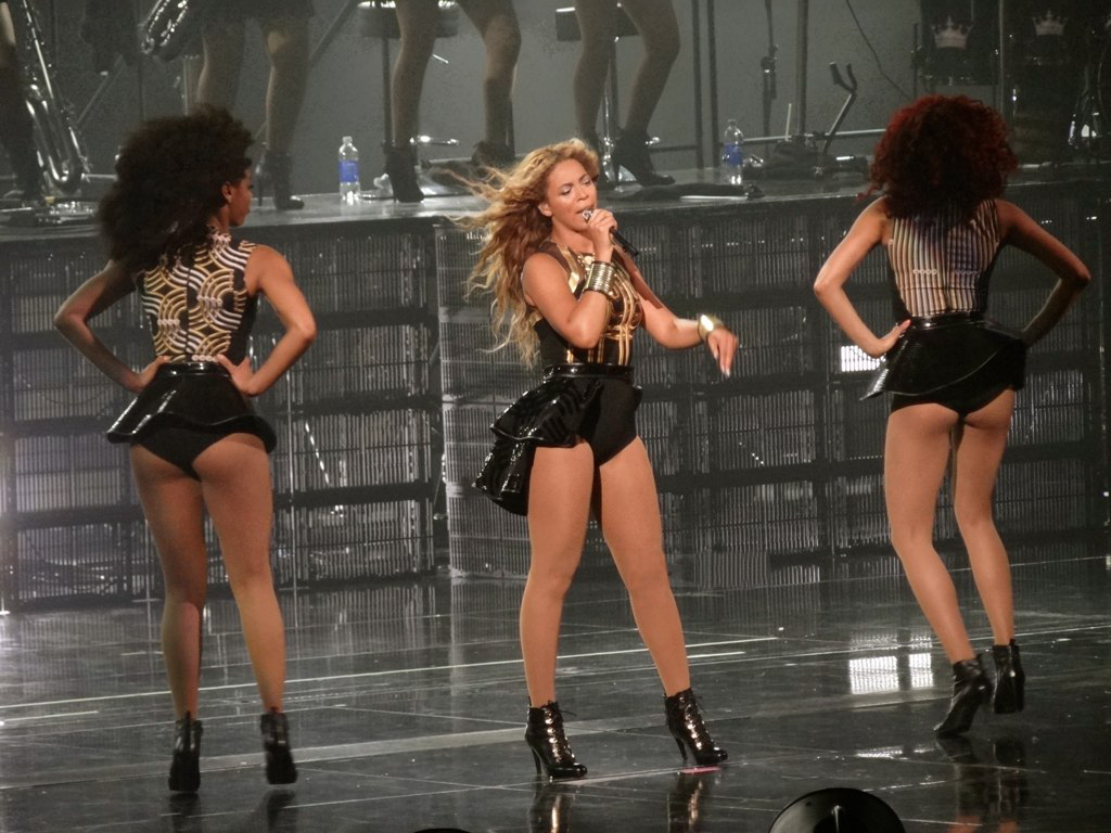 Beyonce performing in Montreal in 2013 during The Mrs. Carter Show World Tour.